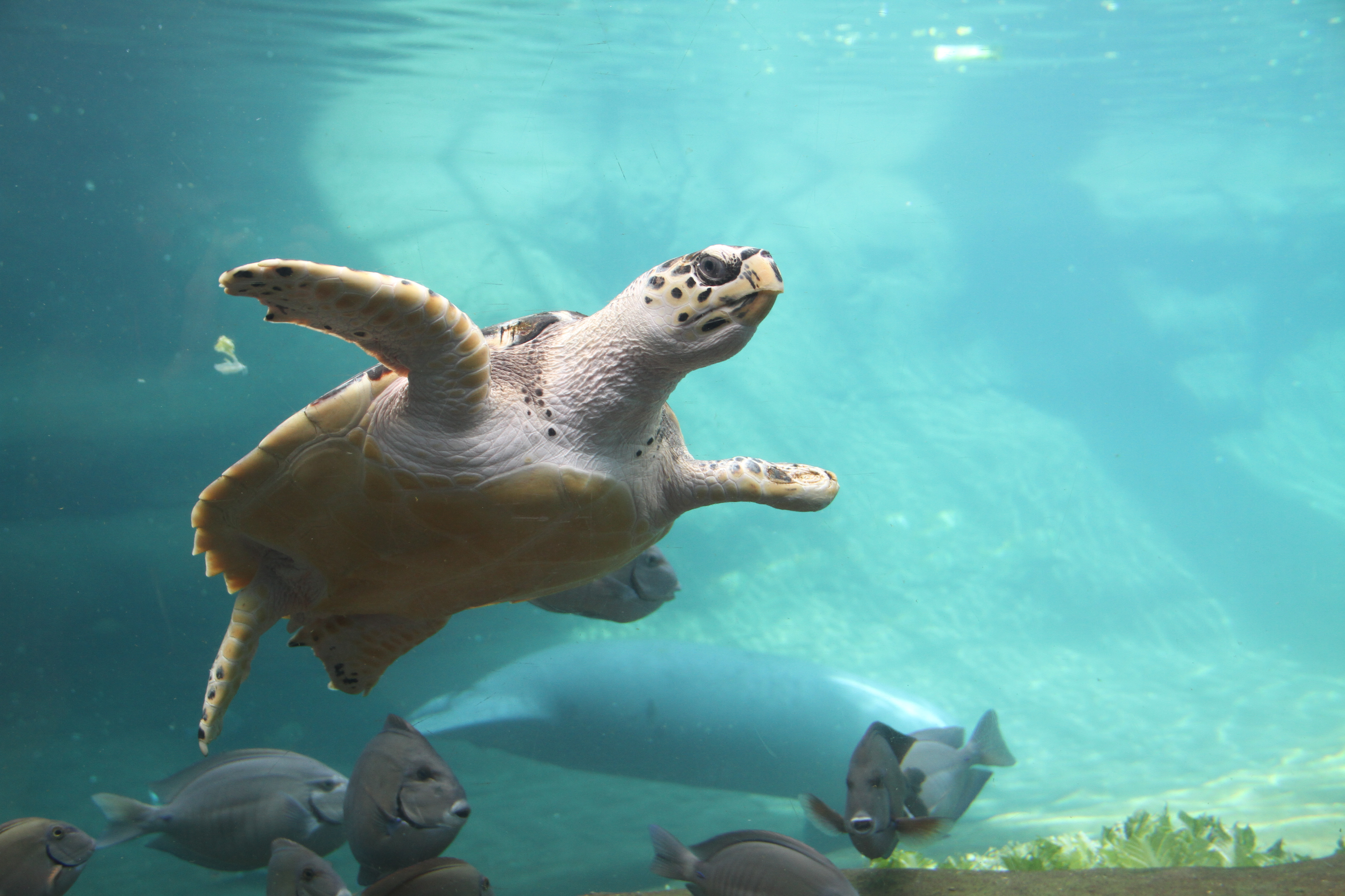 Turtle at Columbus Zoo and Aquarium